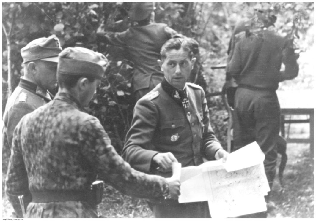 SS-Oberführer Fritz Kraemer as Chief of staff in the field, during Operation Overlord, juli 1944.